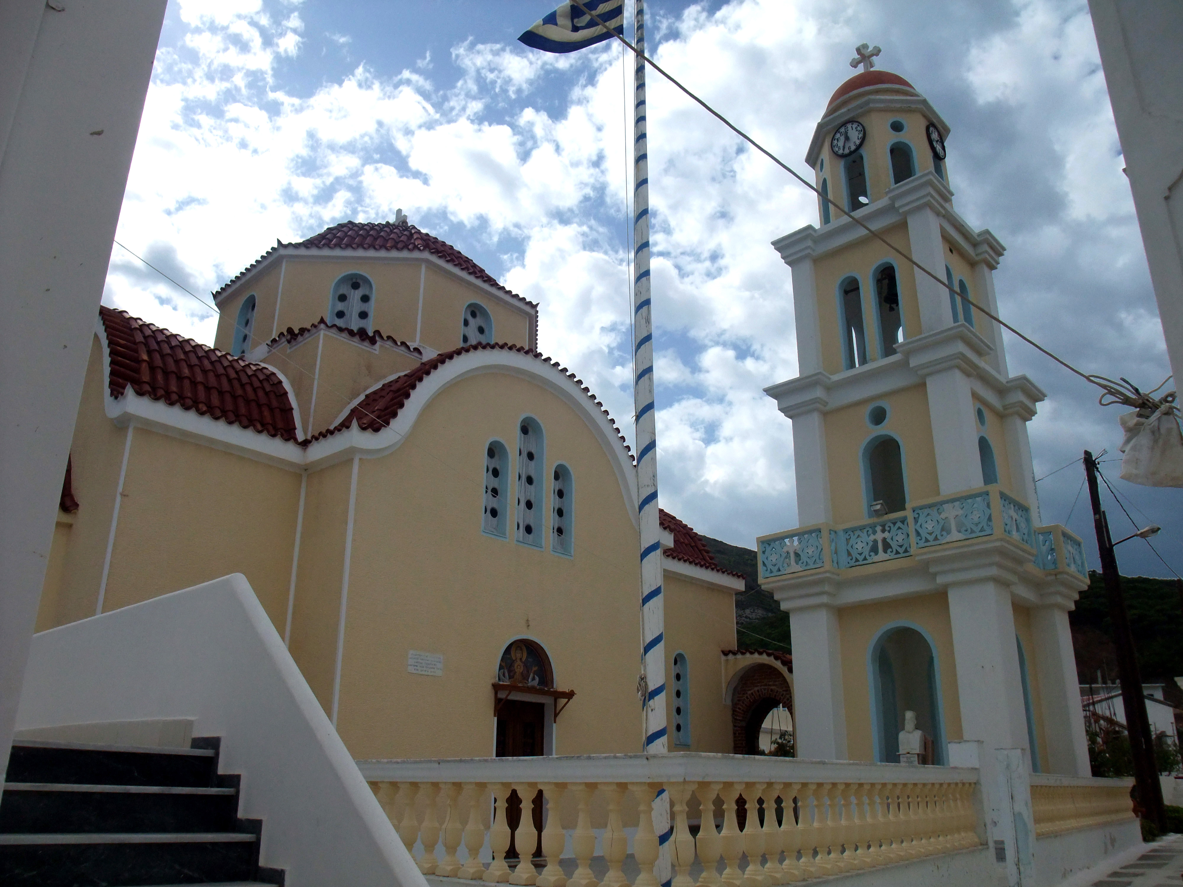 Main church „Zoodóuchou Pigí” in Diafáni, Karpathos, Greek Dodecanese islands